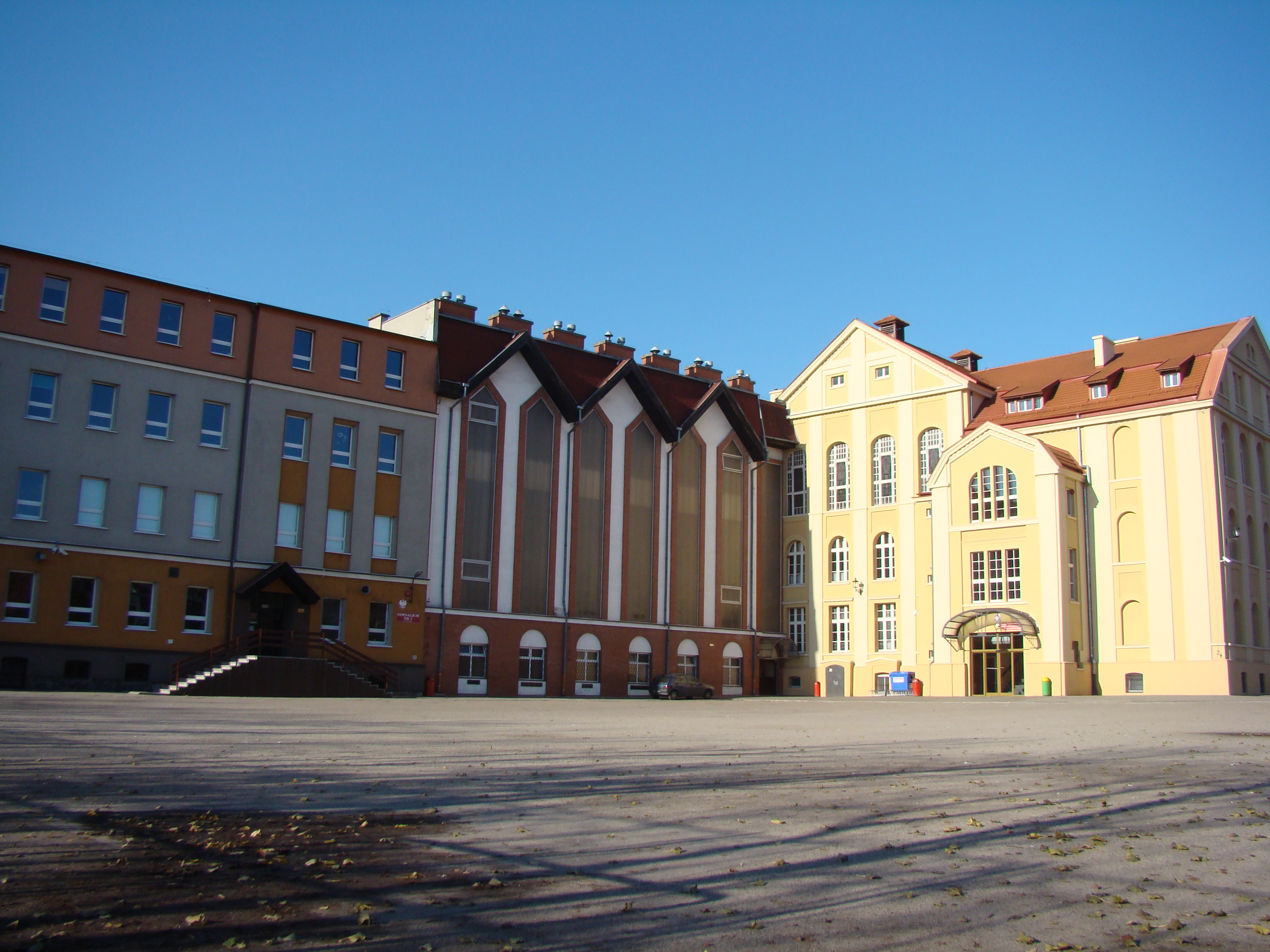 Primary School number 1 and Middle School number 2 in Chojnice